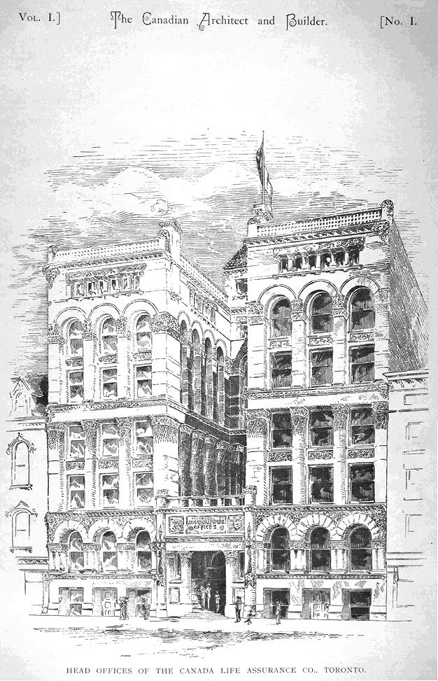 Architectural drawing of the head offices of the Canada Life Assurance Co., Toronto, Canada.